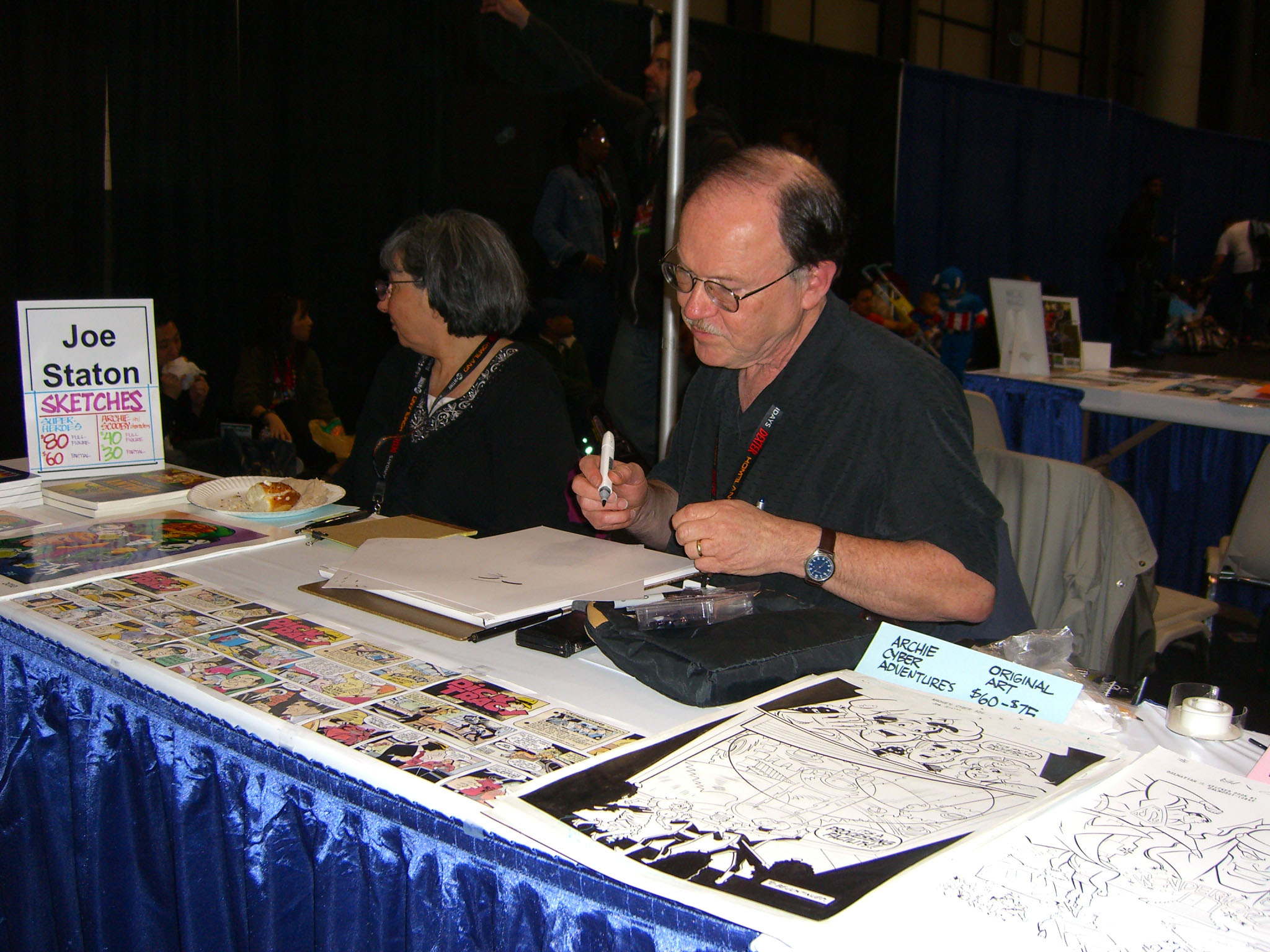 Comics creator Joe Staton during an October 16, 2011 appearance at the New York Comic Con in Manhattan. This photo was created by Luigi Novi. It is not in the public domain, and use of this file outside of the licensing terms is a copyright violation.